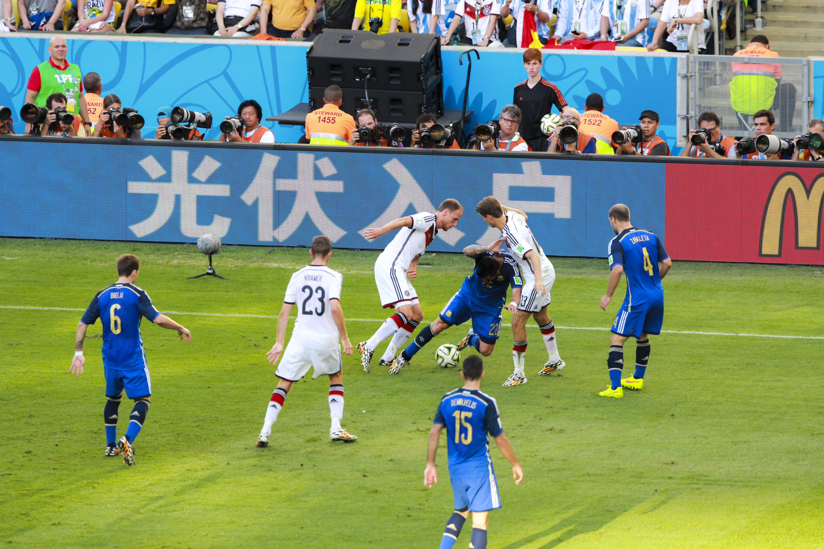 The final match of World Cup 2014 between Germany and Argentina 2014-07-13